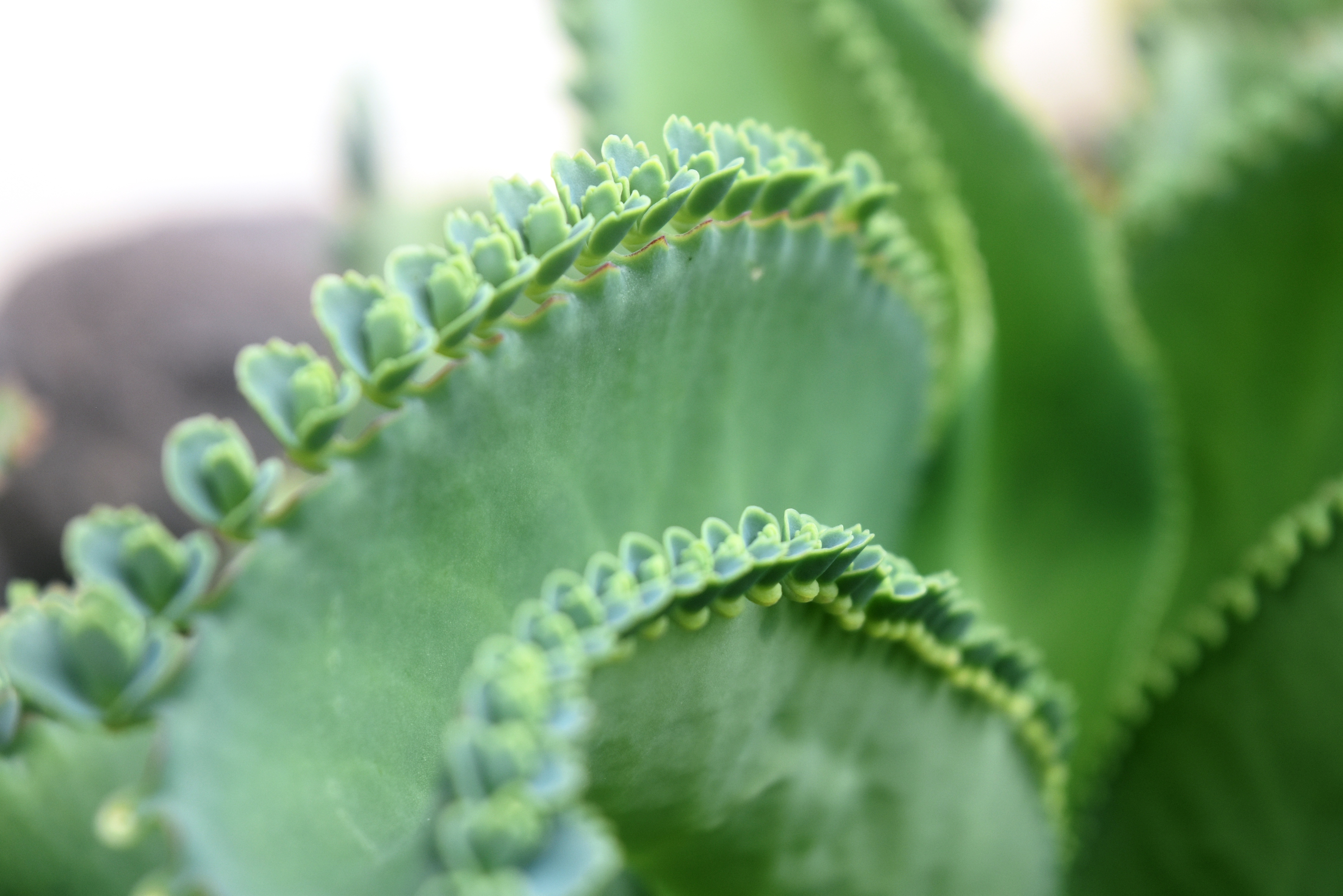 Kataka taka id the common name for Bryophyllum in the Philippines